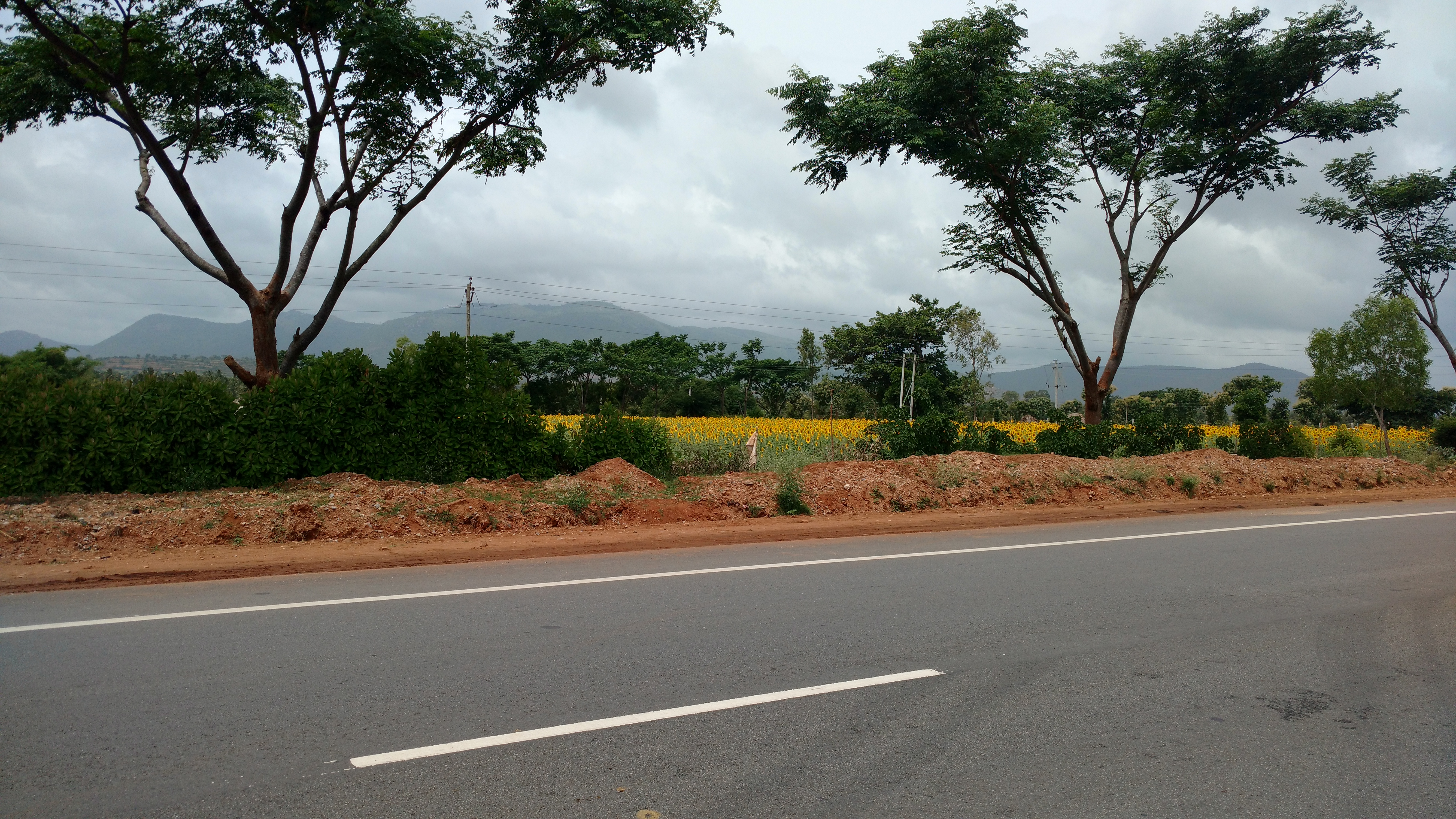 NH 766 view from Gundalpet to Wayanad Oleve Photography By Stalin